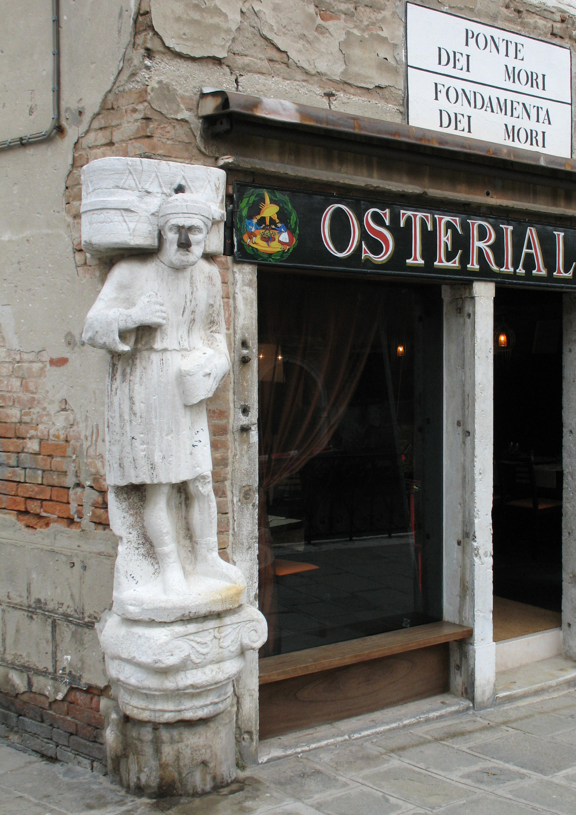 Statue in the Campo dei Mori in Venice, Italy